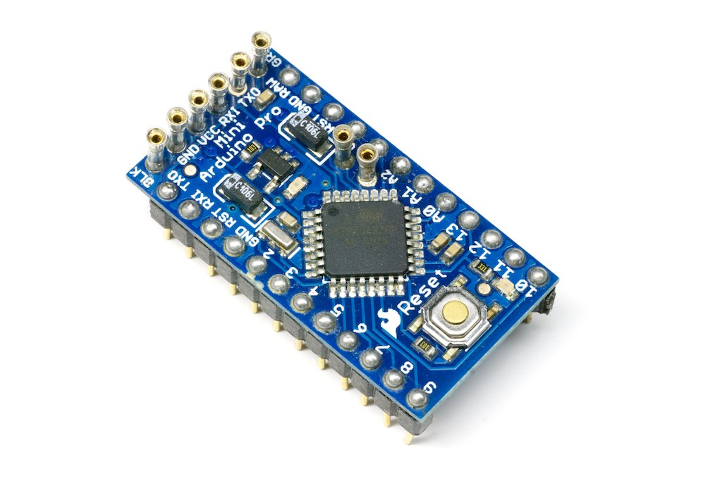 A shot with "LED Lightsaver" prototype.